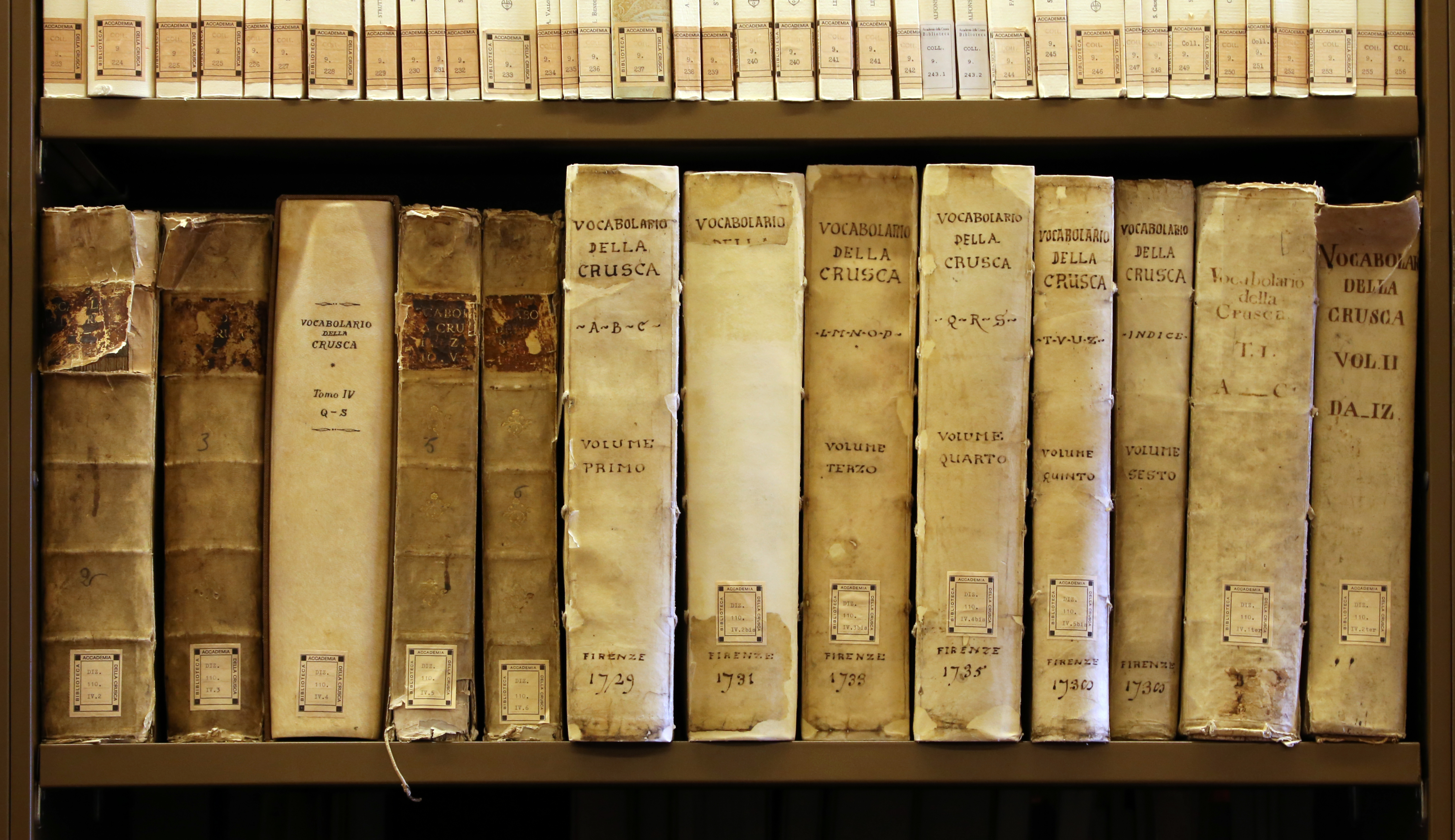 Accademia della Crusca Library